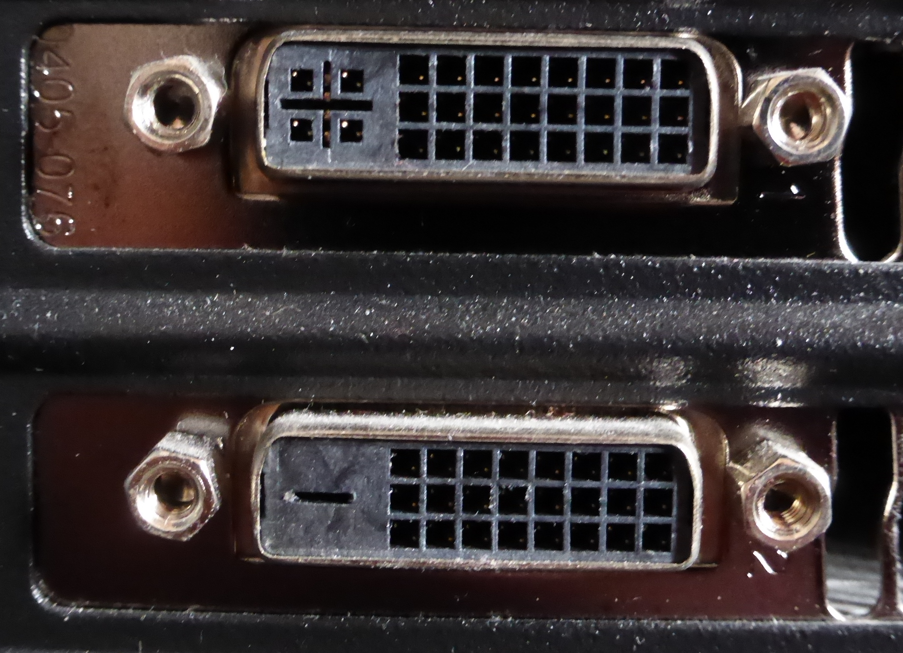 DVI-I and DVI-D jack